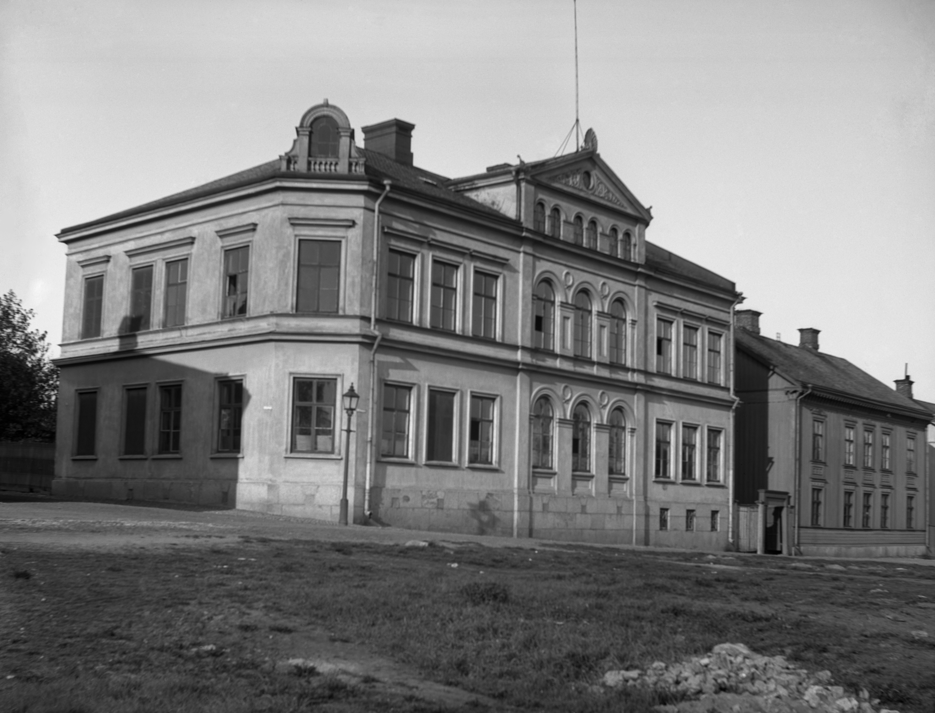 I fonden Karlstads första läroverk för flickor, senare Norra skolan.